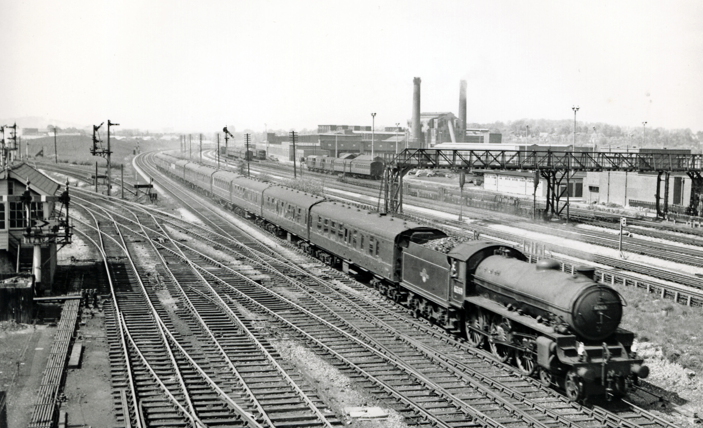 Manchester London Road - Marylebone express at Neasden Junction. View NW, towards Aylesbury, Leicester and the North: ex-Metropolitan & Great Central Joint approach to London, with the LPTB Neasden Depot on the right and the ex-GC main line via Princes Risborough joining on the left. The 08.30 from Manchester is headed by Thompson B1 4-6-0 No. 61369 (built 5/50, withdrawn 12/63). It is Cup Final Day - see TQ2185 : Neasden Junction, with Cup Final Special from Nottingham.